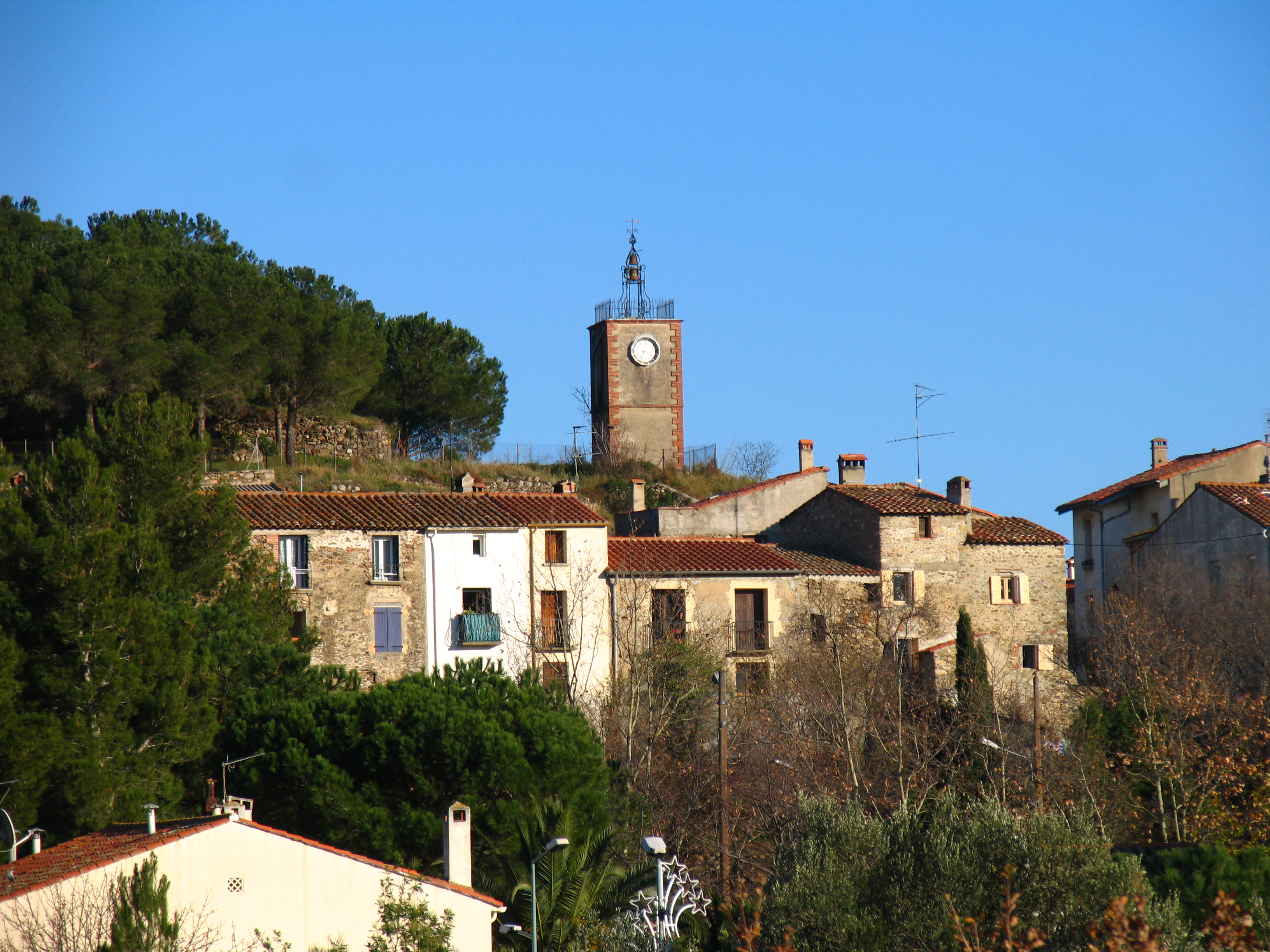 Map it: Google Earth | Street | Satellite | Hybrid | Nautical